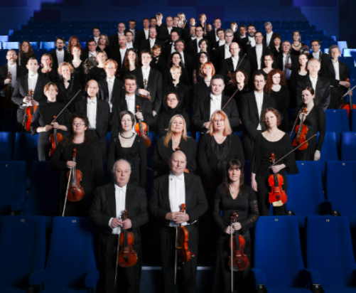 Picture of the RTÉ National Symphony Orchestra